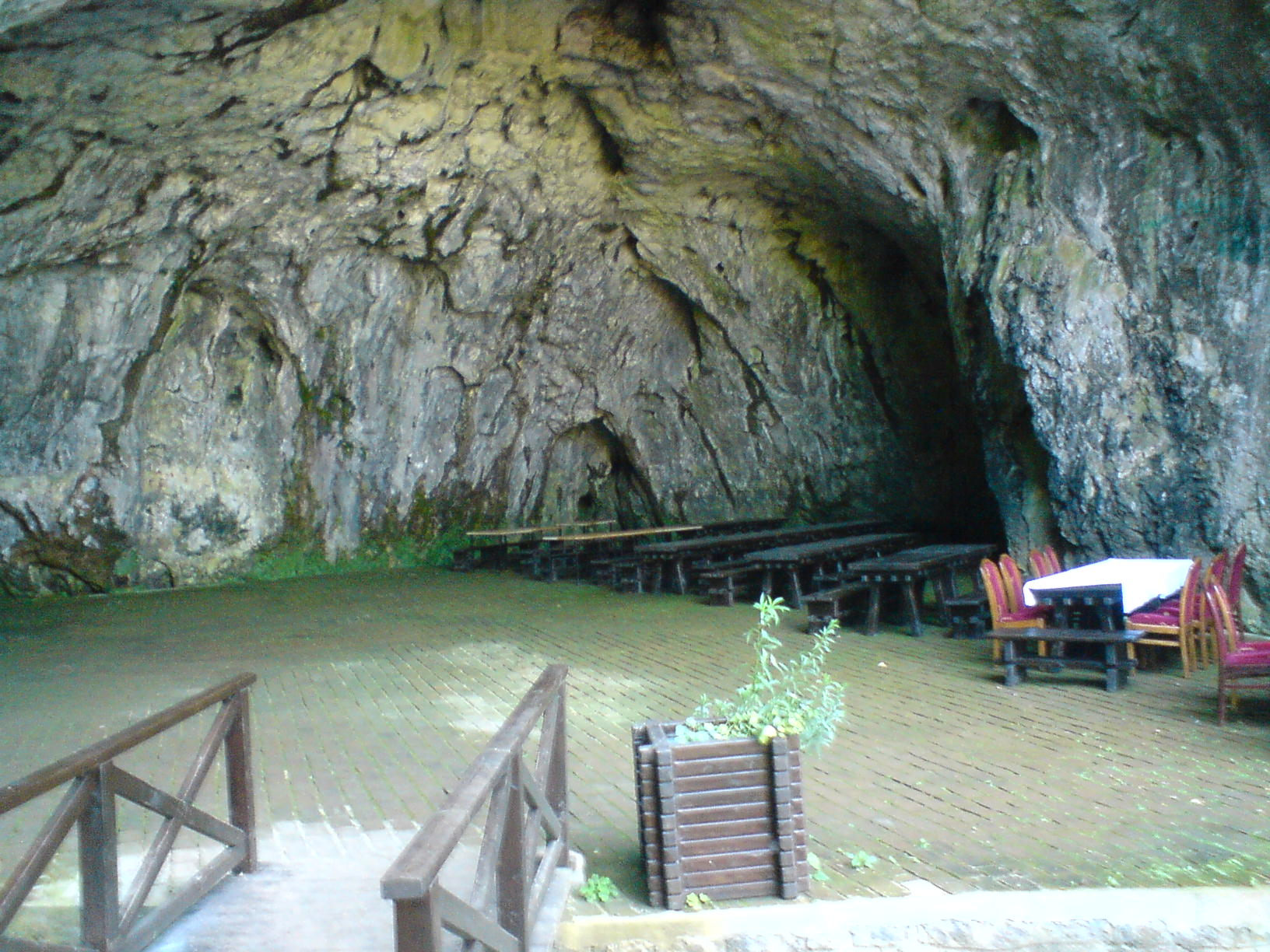 Petnica Cave near Valjevo